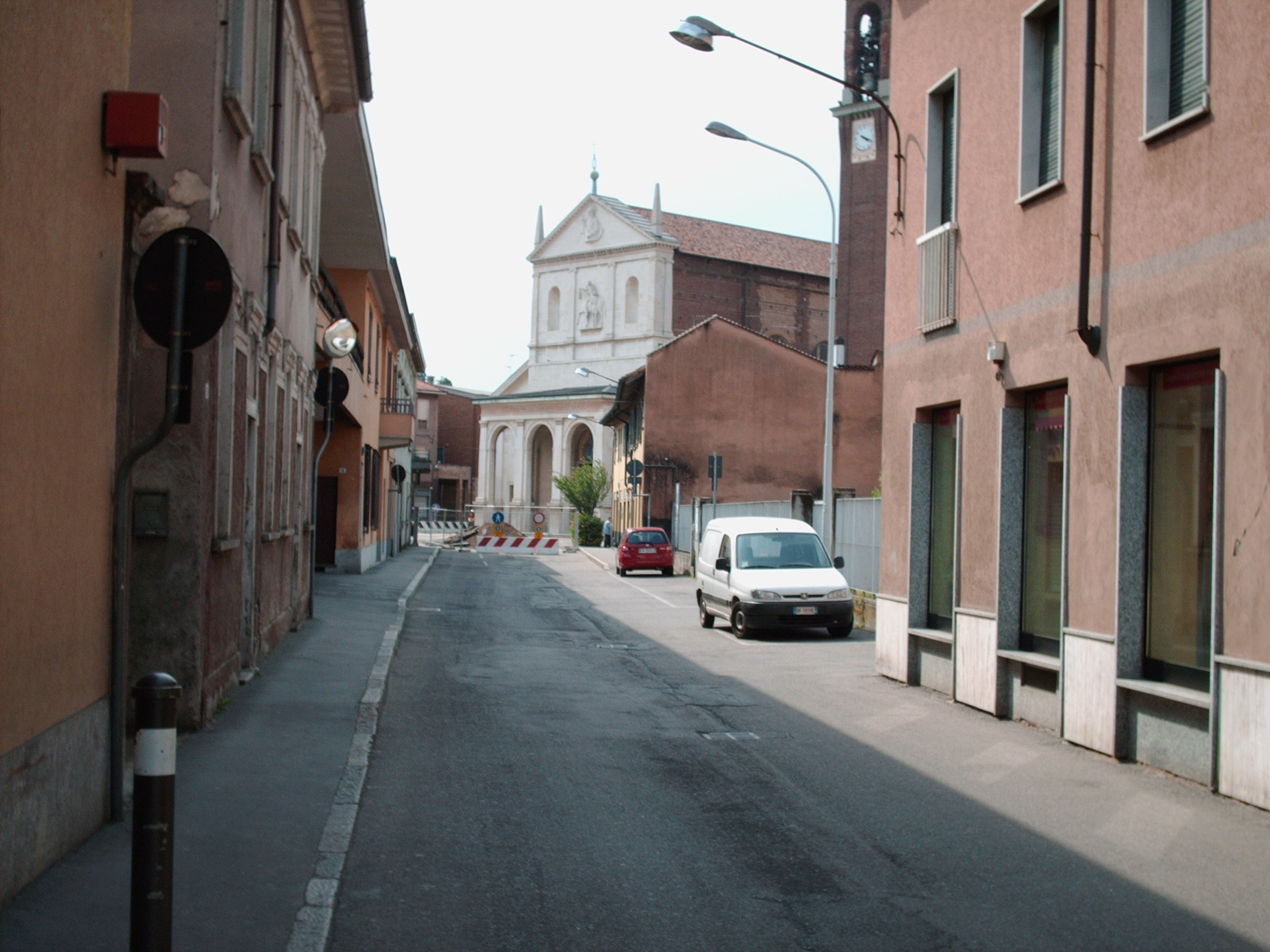 20010 Inveruno MI, Italy